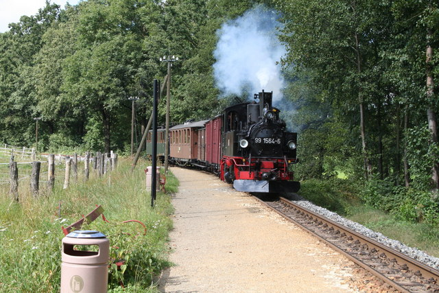 Narrow gauge train at Cunnertswalde